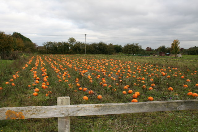 Field of pumpkins in Hinton Waldrist